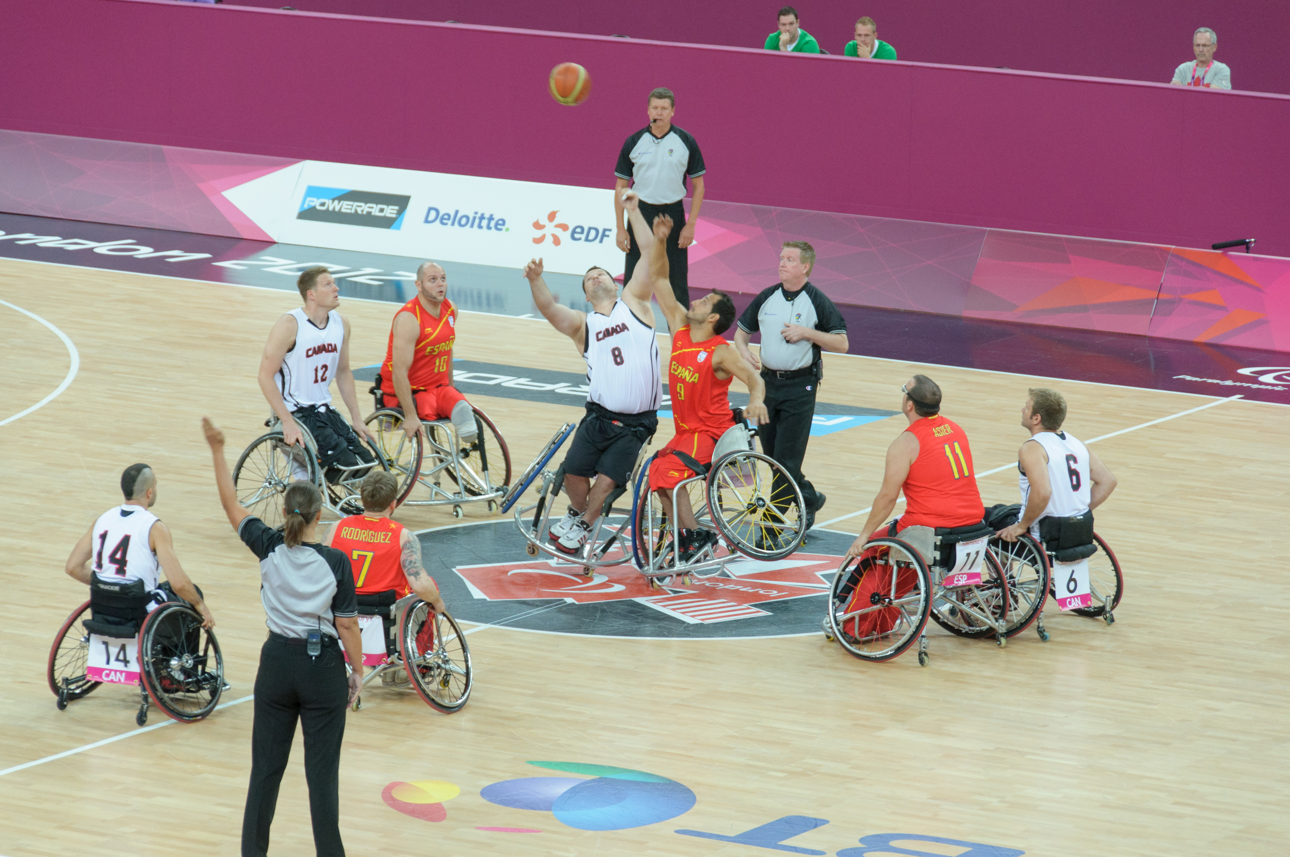 Paralympic Wheelchair Basketball - Quarter-final - Canada vs Spain